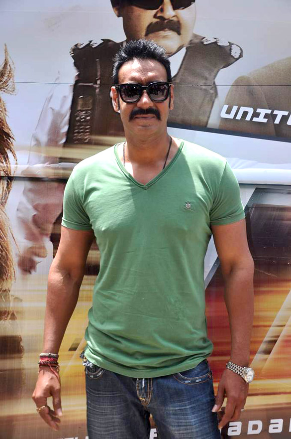 Ajay Devgn at Tezz promotional bus ride